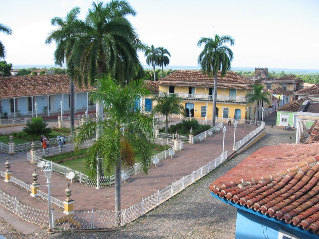 Central square in Trinidad (Cuba)